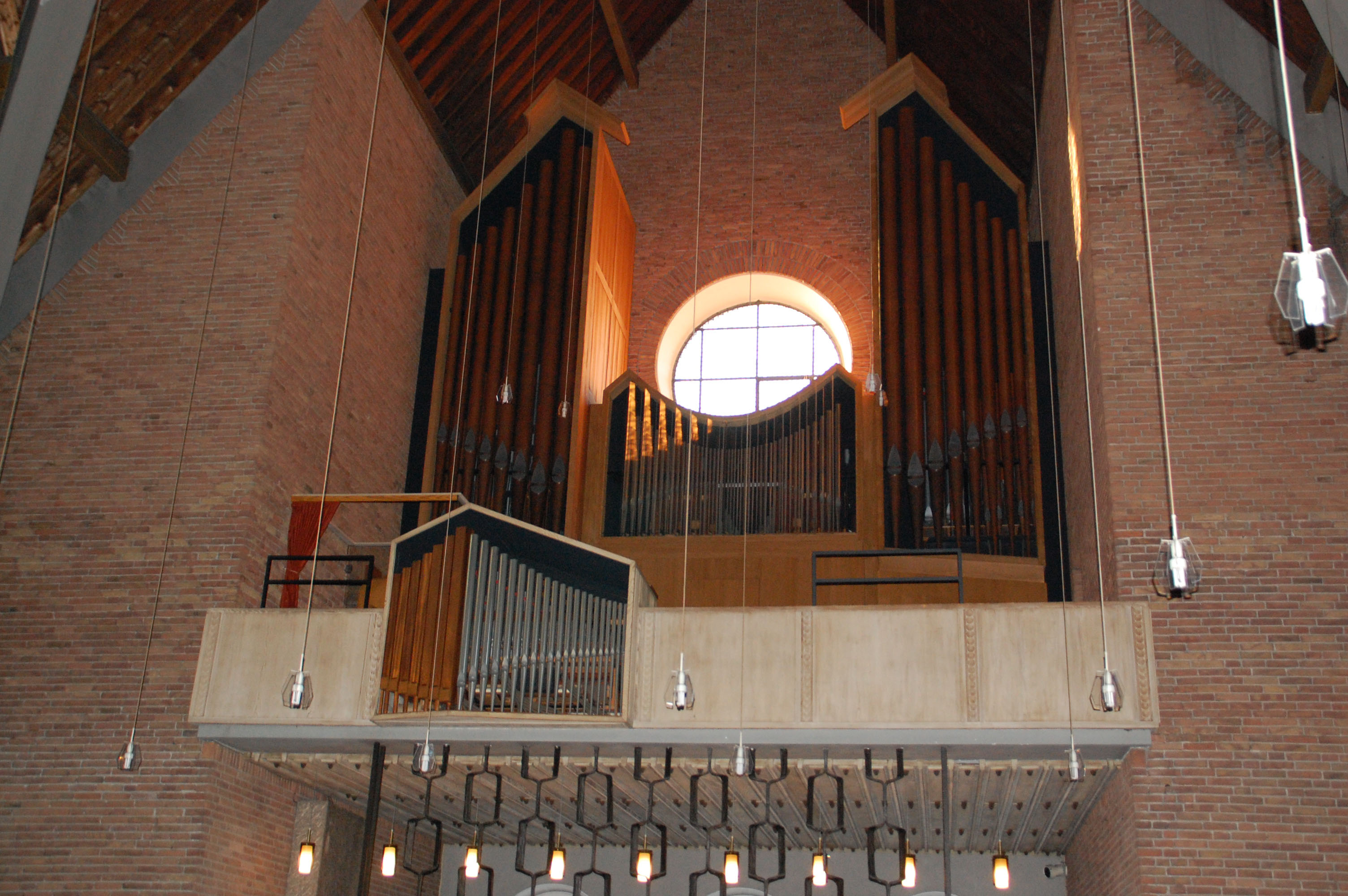 Reformationskirche, Köln-Marienburg (Gemeinde Bayenthal) This is a photograph of an architectural monument.